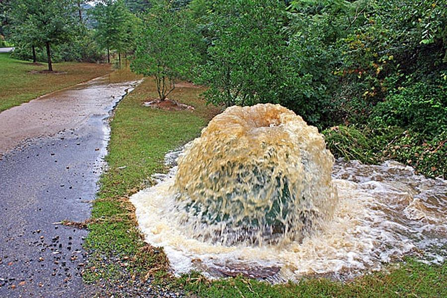 Combined Stormwater Sewage Overflow in Roswell Georgia September 2009. National Flood Insurance Program: When flood water enters sewers, the sewage gets released to the environment.